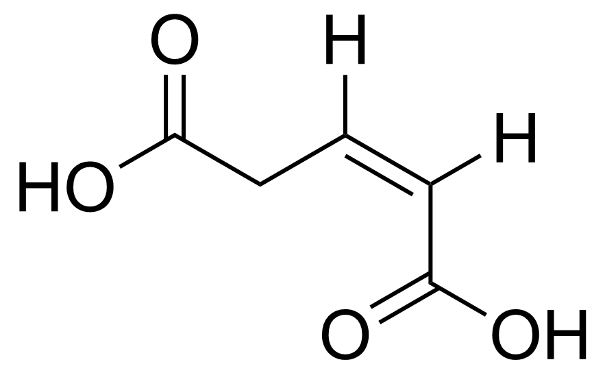 Skeletal structure of the cis isomer of glutaconic acid